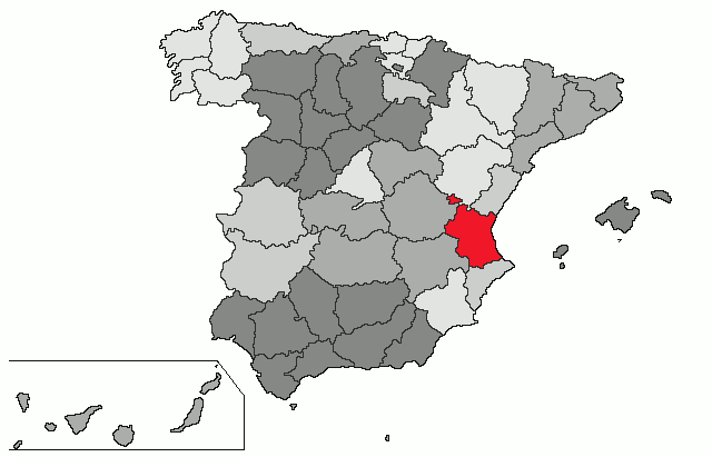 Province of Valencia Based in Image:ProvPont.jpg Source: Designed by Leoplus. Original picture, designed by Sobreira.